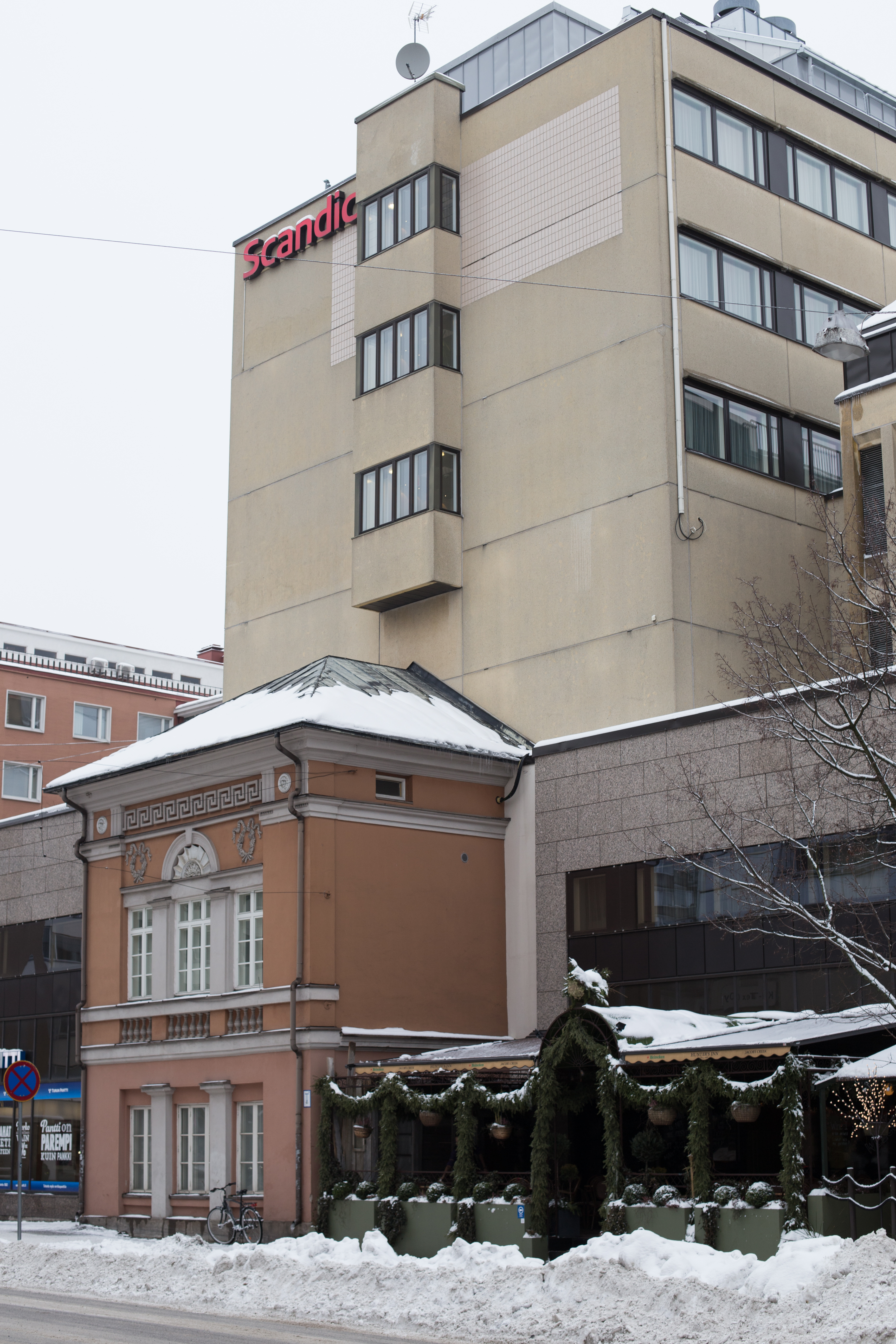 Julininkulma building